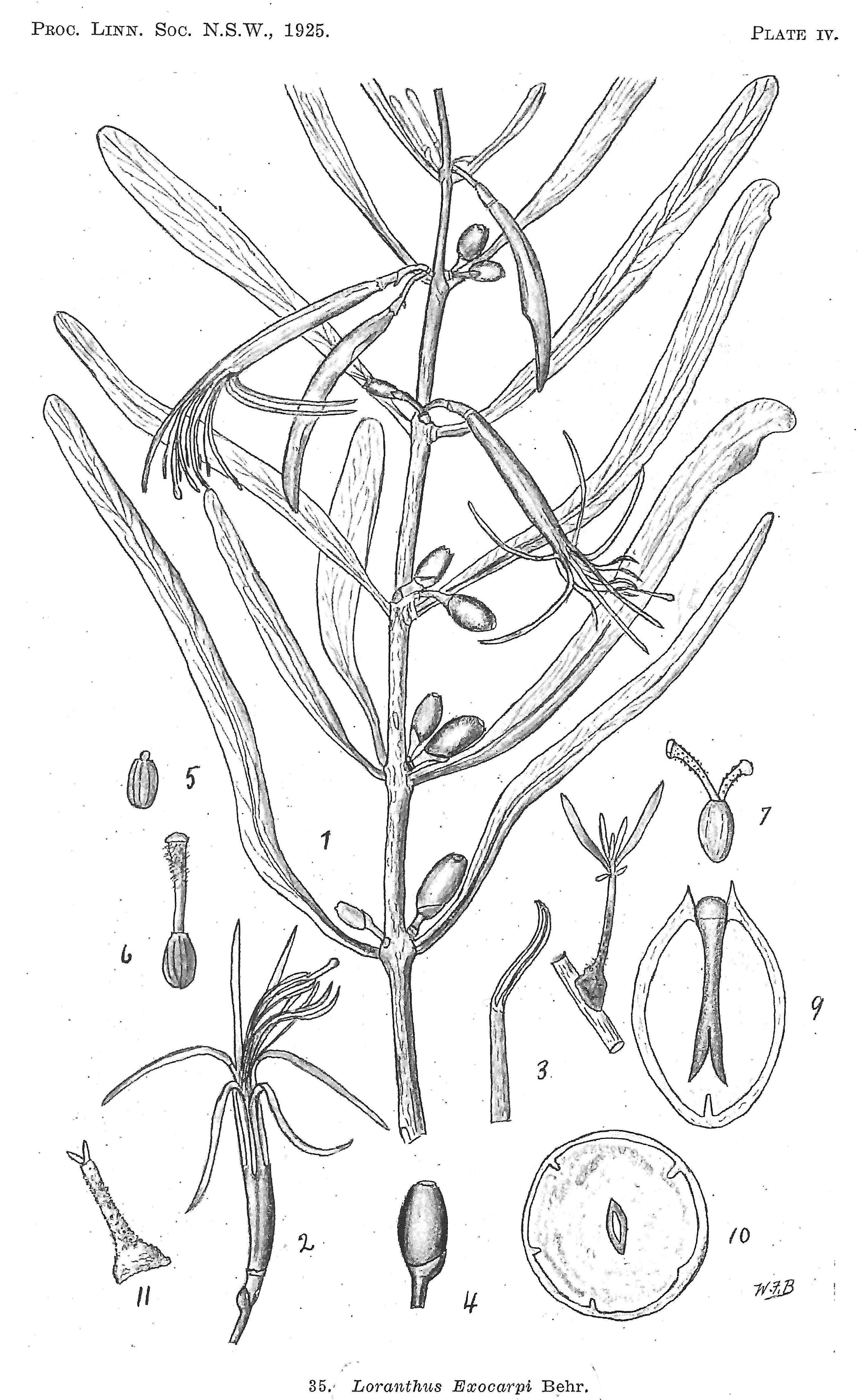 Type specimen of Lysiana exocarpi collected by Hermann Behr in the Barossa Range in the 1840s.